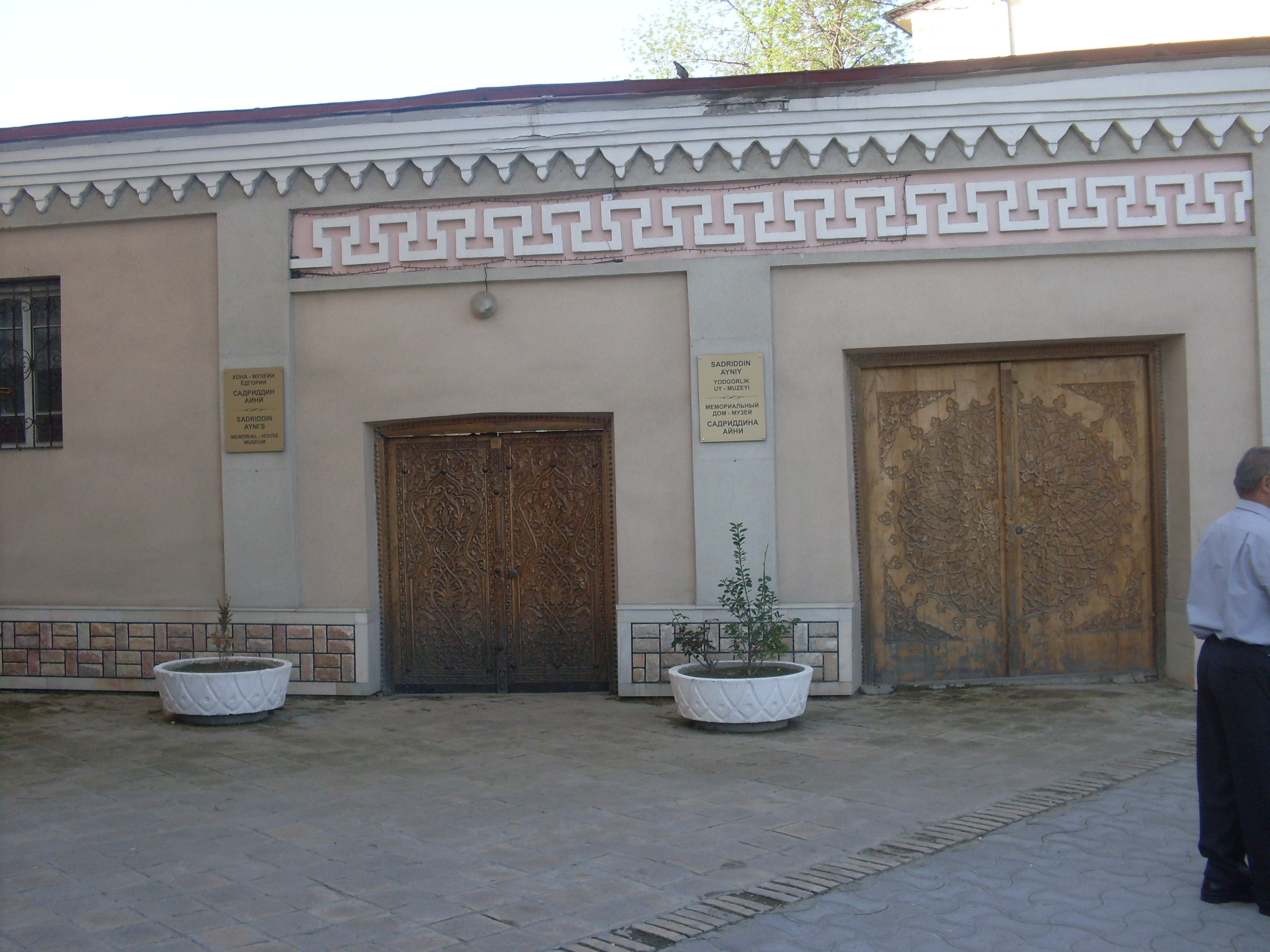 Museum Sadridin Ayni in the city of Samarkand on Registan StreetТоҷикӣ: Осорхонаи Садриддин Айнӣ дар ҳавлии адиб. Шаҳри Самарқанд, кучаи Регистон